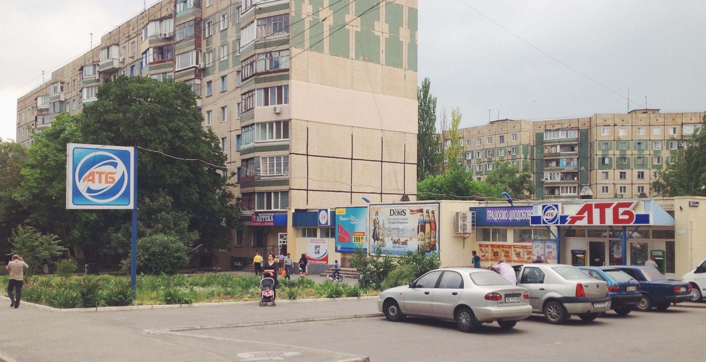 Sonyachny microdistrict, Kryvyi Rih